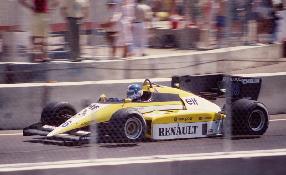 Derek Warwick in his Renault. He spun out of the race on Lap 10.